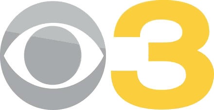 Logo for the CBS-owned tv news station, KYW-TV.